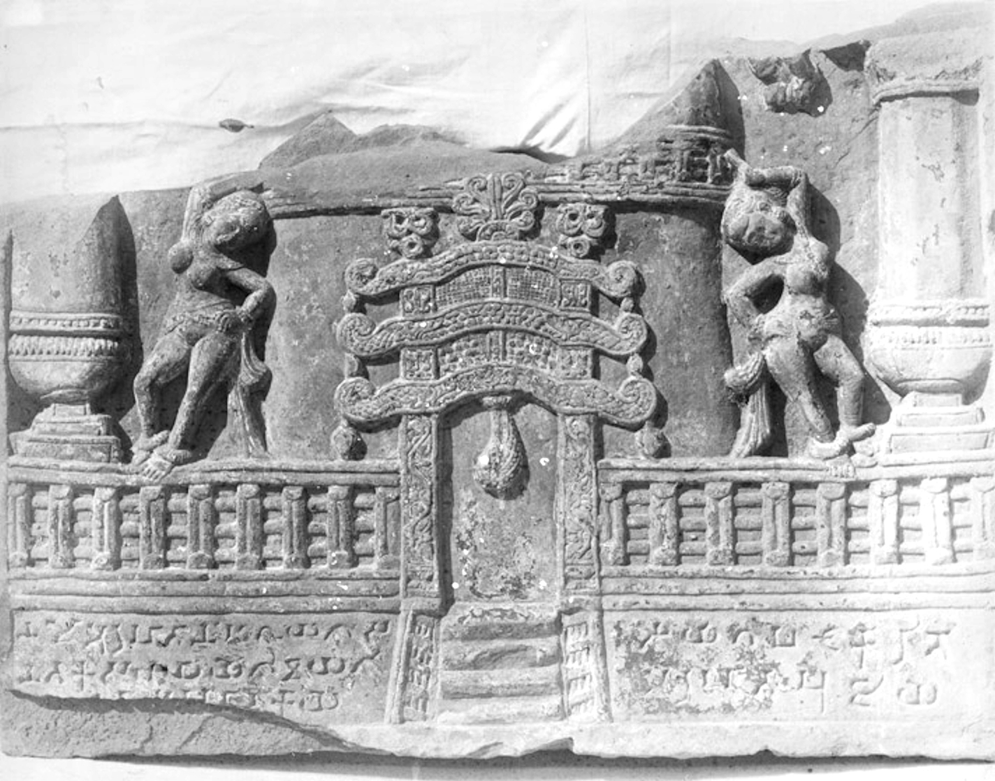 Sculpture panel showing a Jain stupa and torana, Mathura 75-100 CE